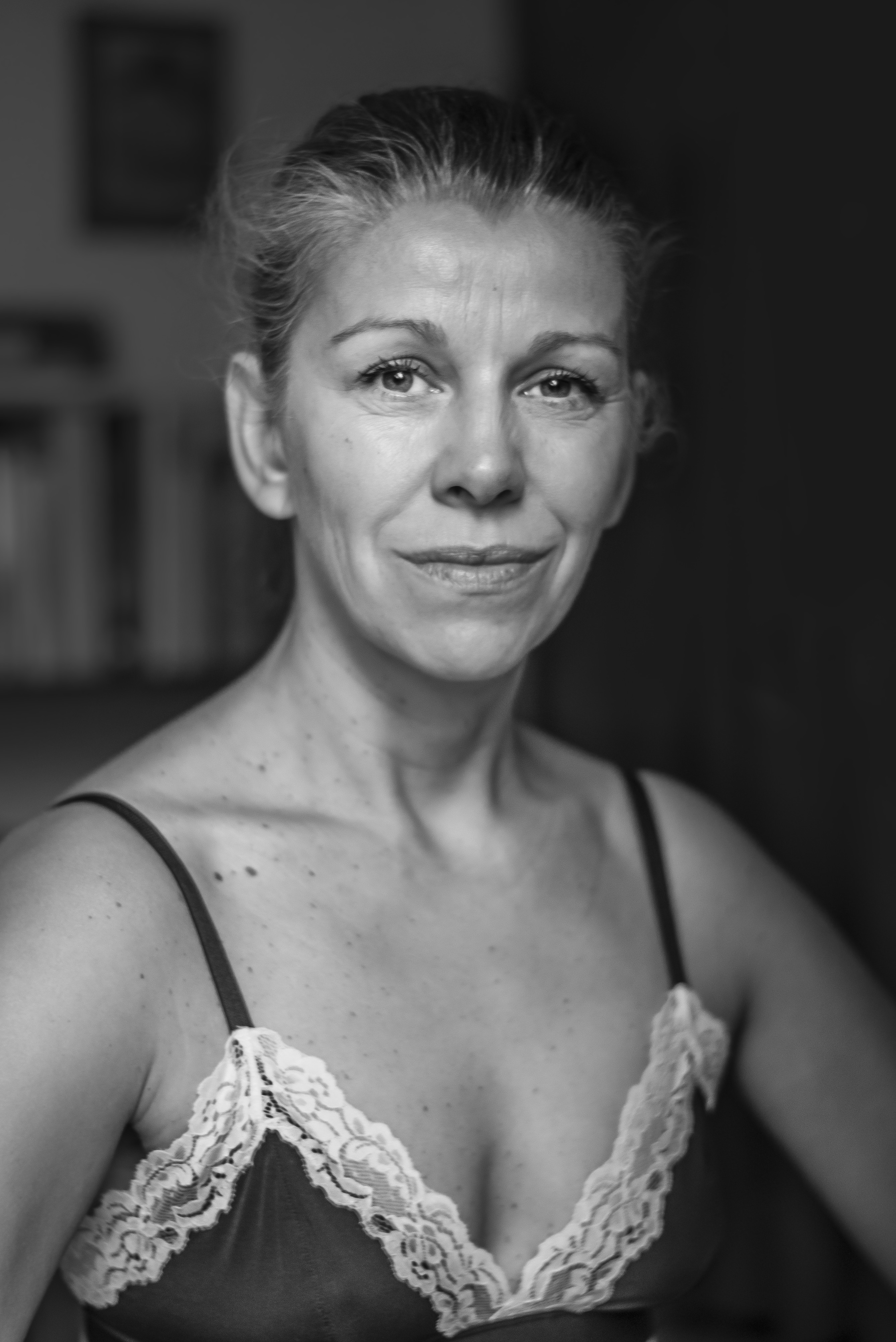 Natasa Gacova Czech actress